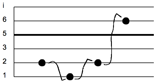 A short melody in slendro notated using the Surakarta method. Numbers added along the side for reference.